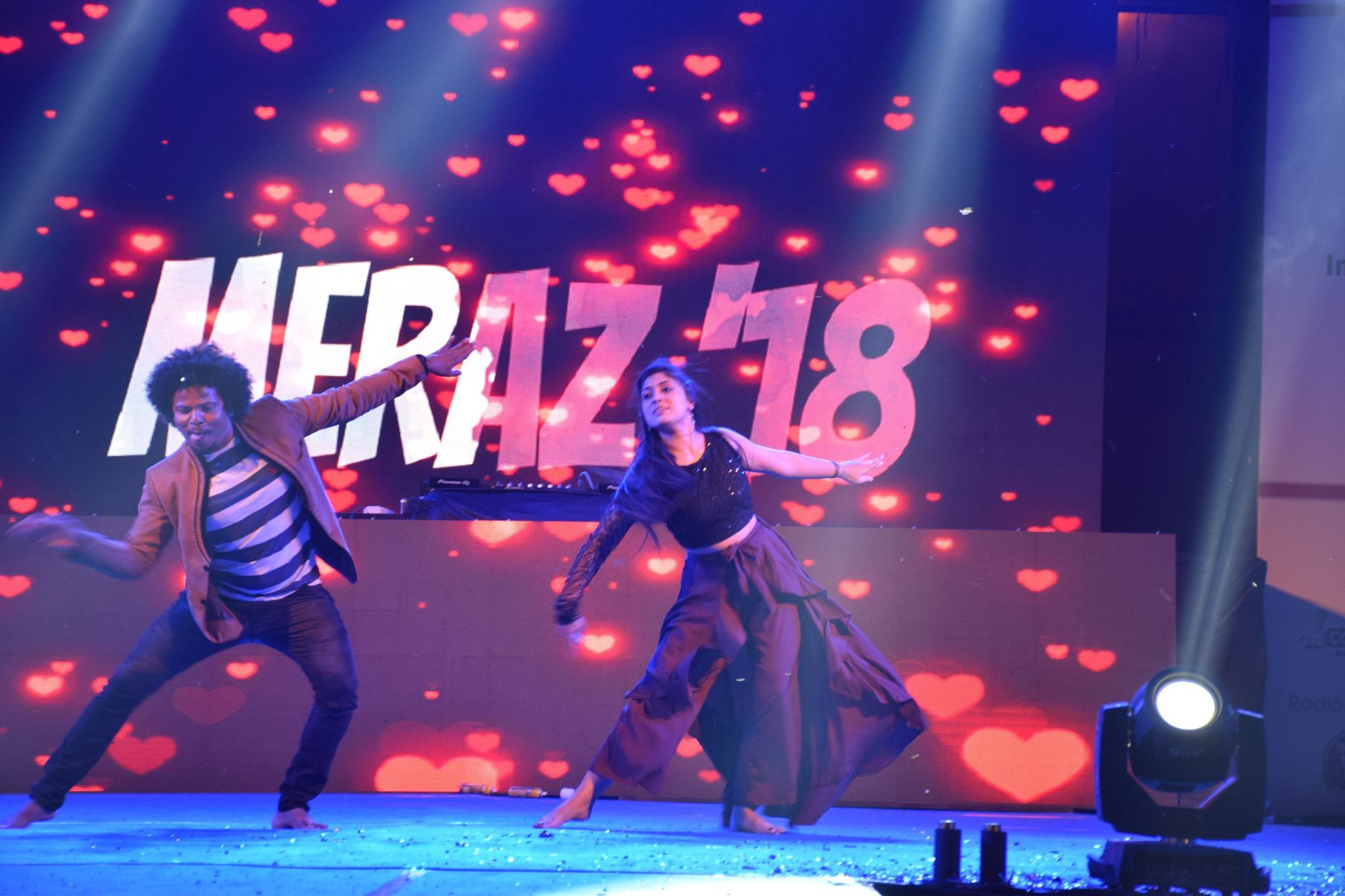 The image was captured during a dance performance at Meraz 2018